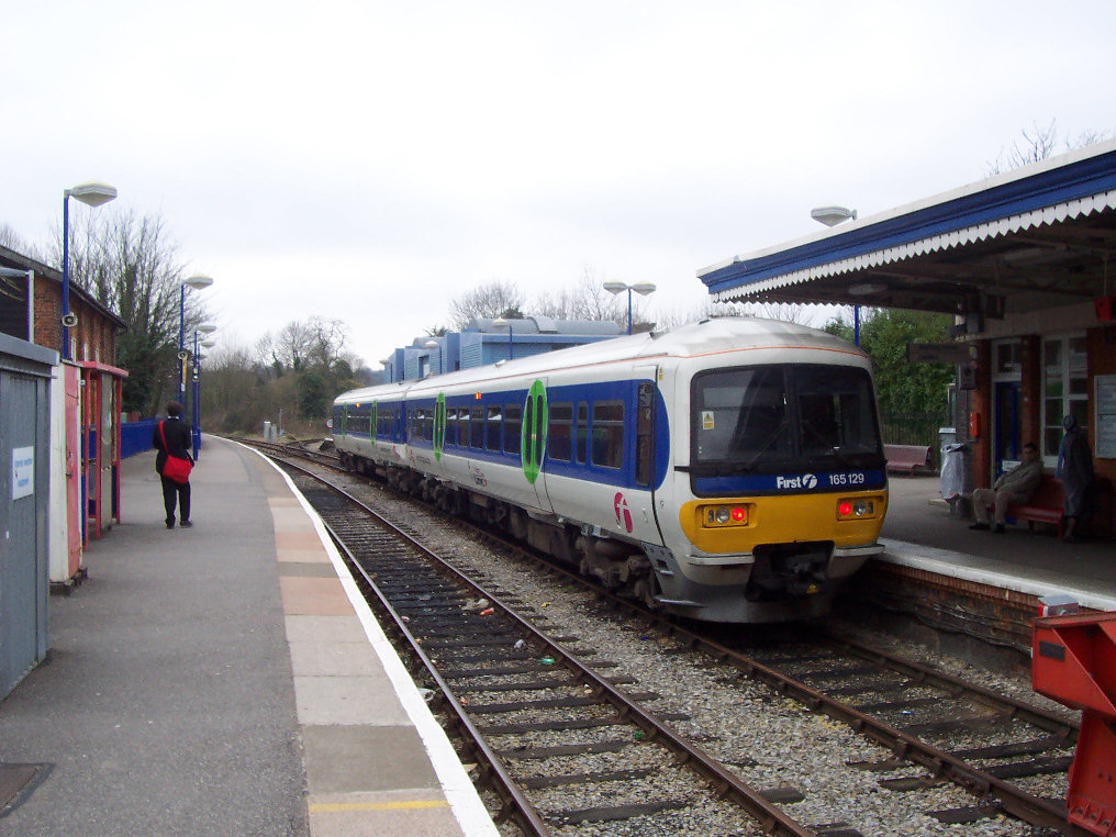 First Great Western Link 165129 stands at Bourne End.